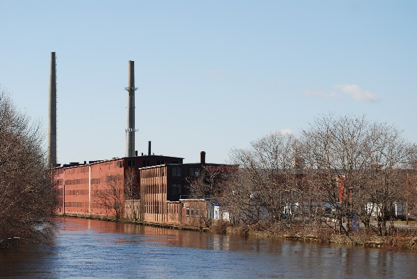 Taunton River at Weir Village, City of Taunton, Massachusetts